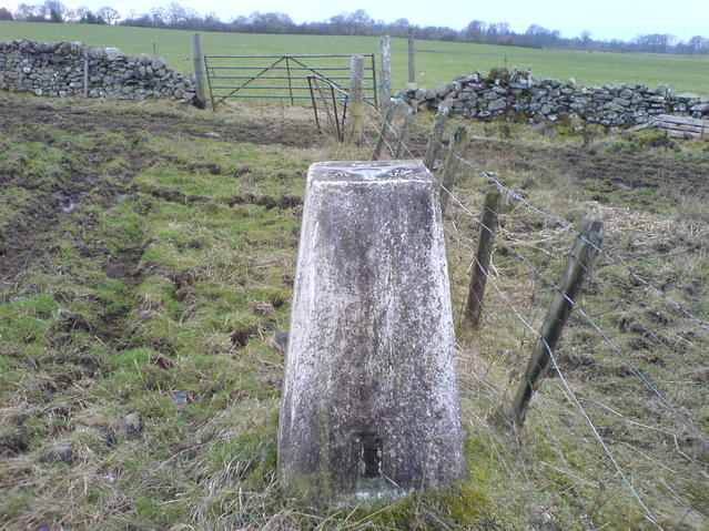 Easter Muckovie Farm trigpoint Sits in the corner of a field surrounded by electric fencing so visitors beware!